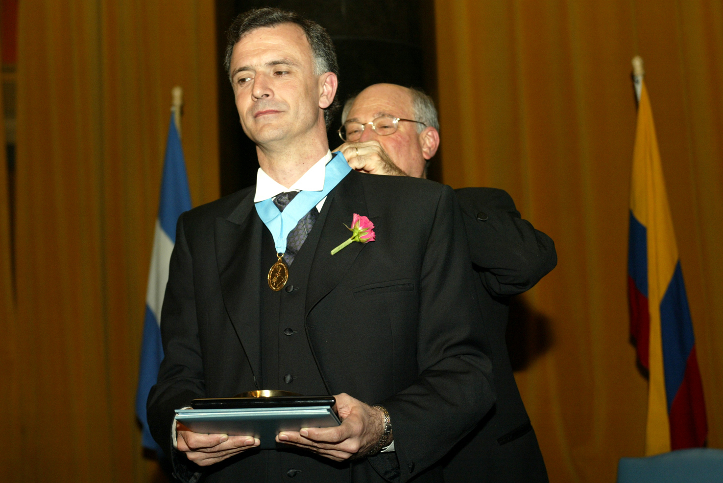 daniel Santoro recibe el premio Moore Cabot de periodismo en la Universidad de Columbia en new York del presidente de la universidad Lee Bollinger. 5_10_04